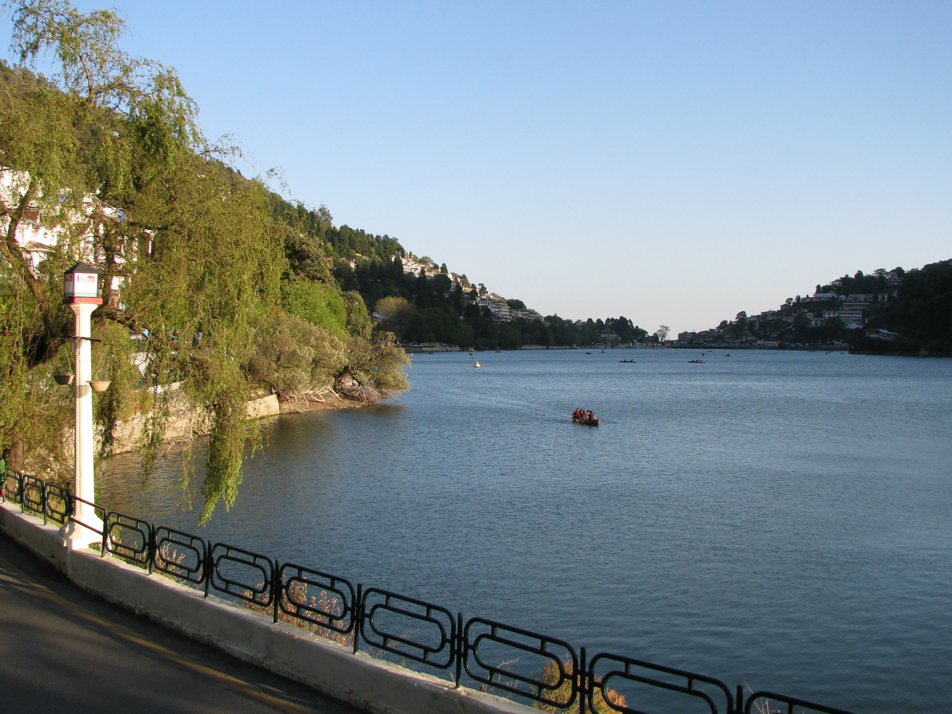 Bhupendra, 2011.